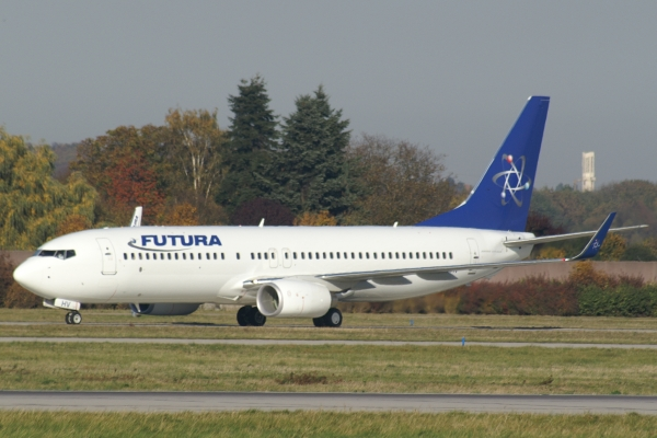 Futura Boeing 737-800 EC-JHV at Stuttgart Airport